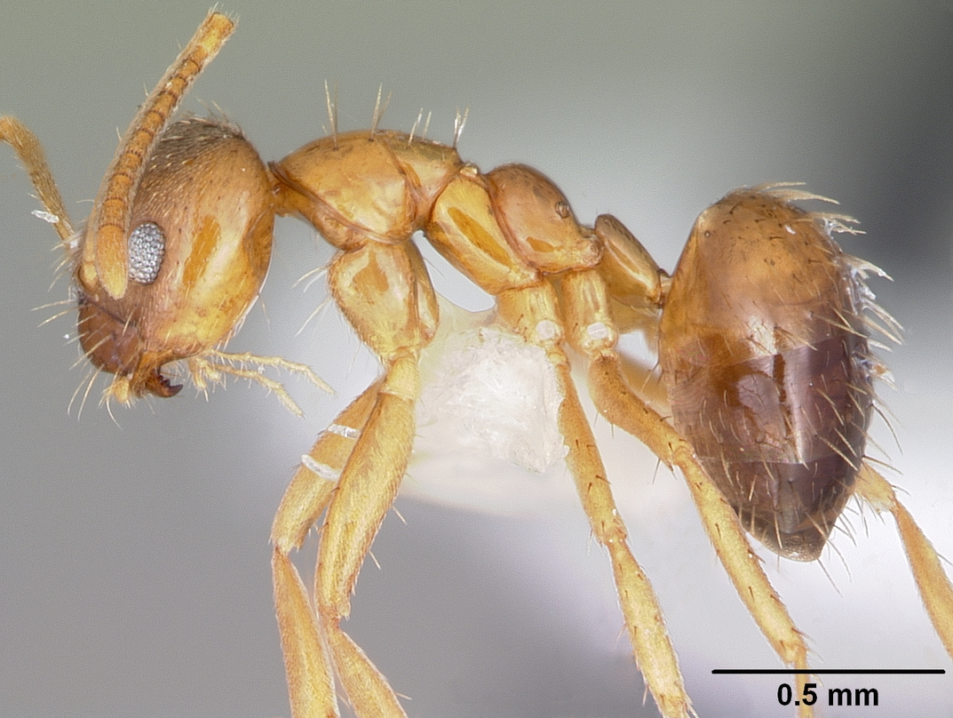 Profile view of ant Paratrechina flavipes specimen casent0104829.